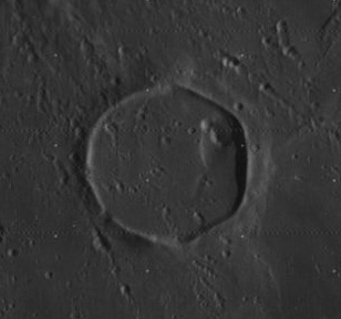 Aristarchus F, on the moon.